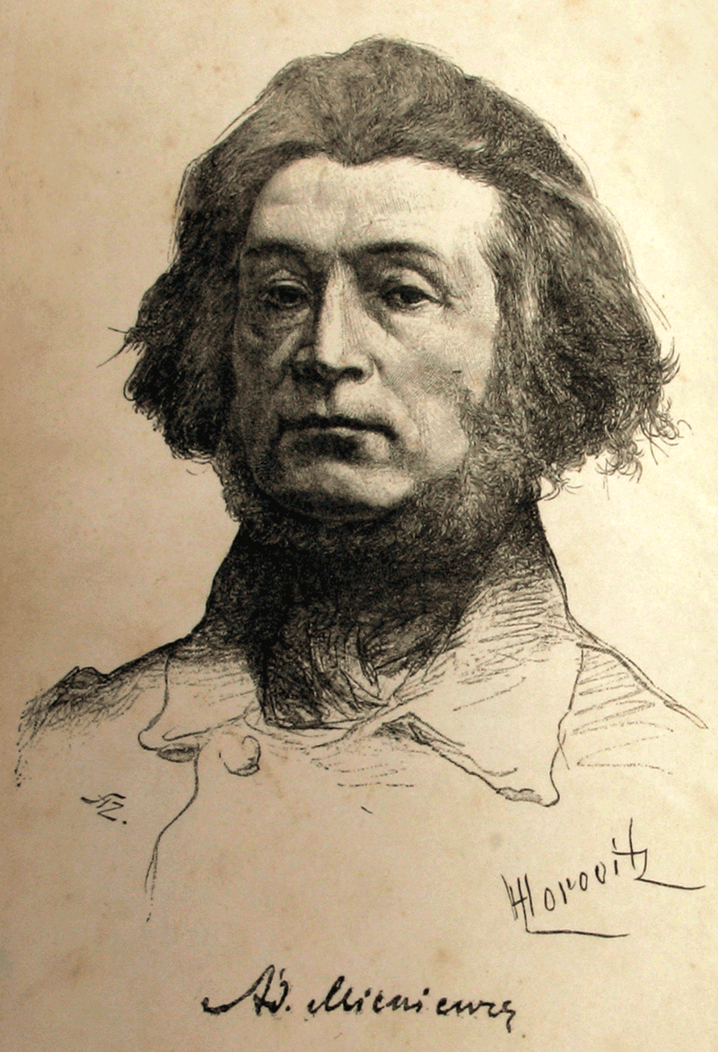 Adam Mickiewicz from old book 1888. (lith. Adomas Mickevičius)